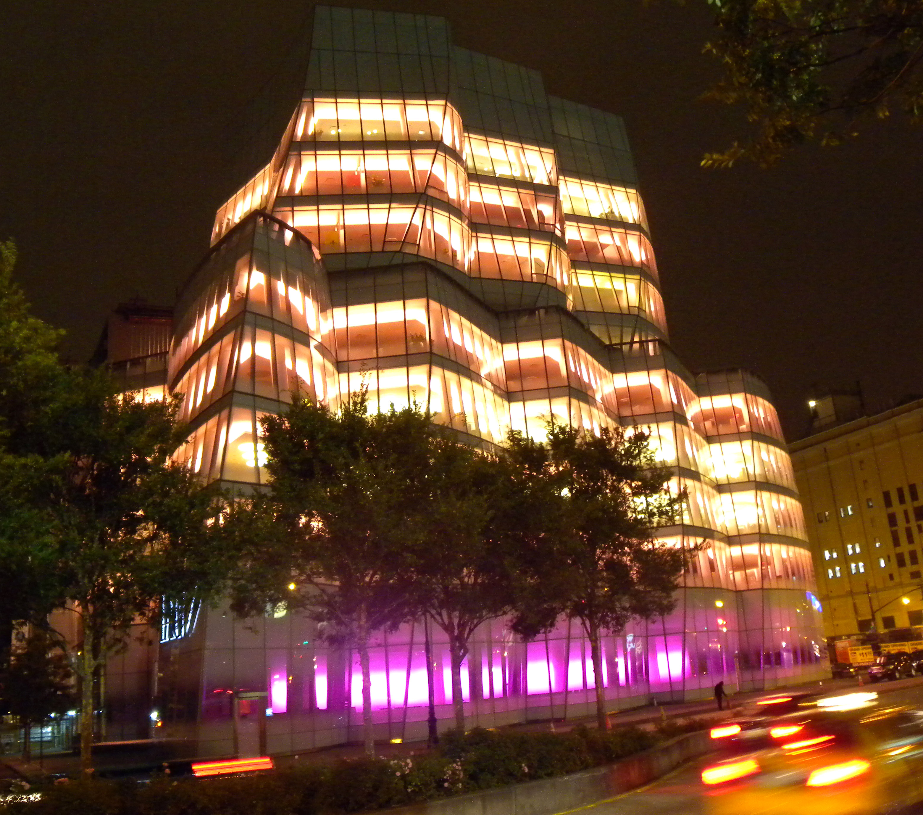 Looking southeast from bike path, across 19th and West Side Highway, at IAC building after dark.